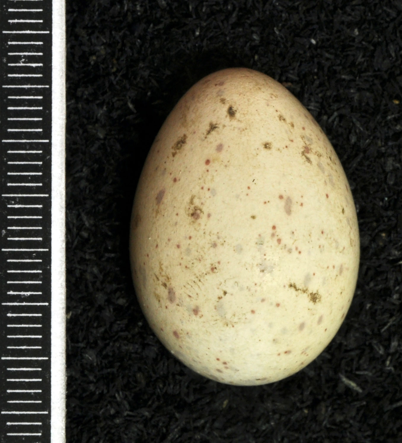 Hair-crested drongo Dicrurus hottentottus , egg, Coll. Museum Wiesbaden